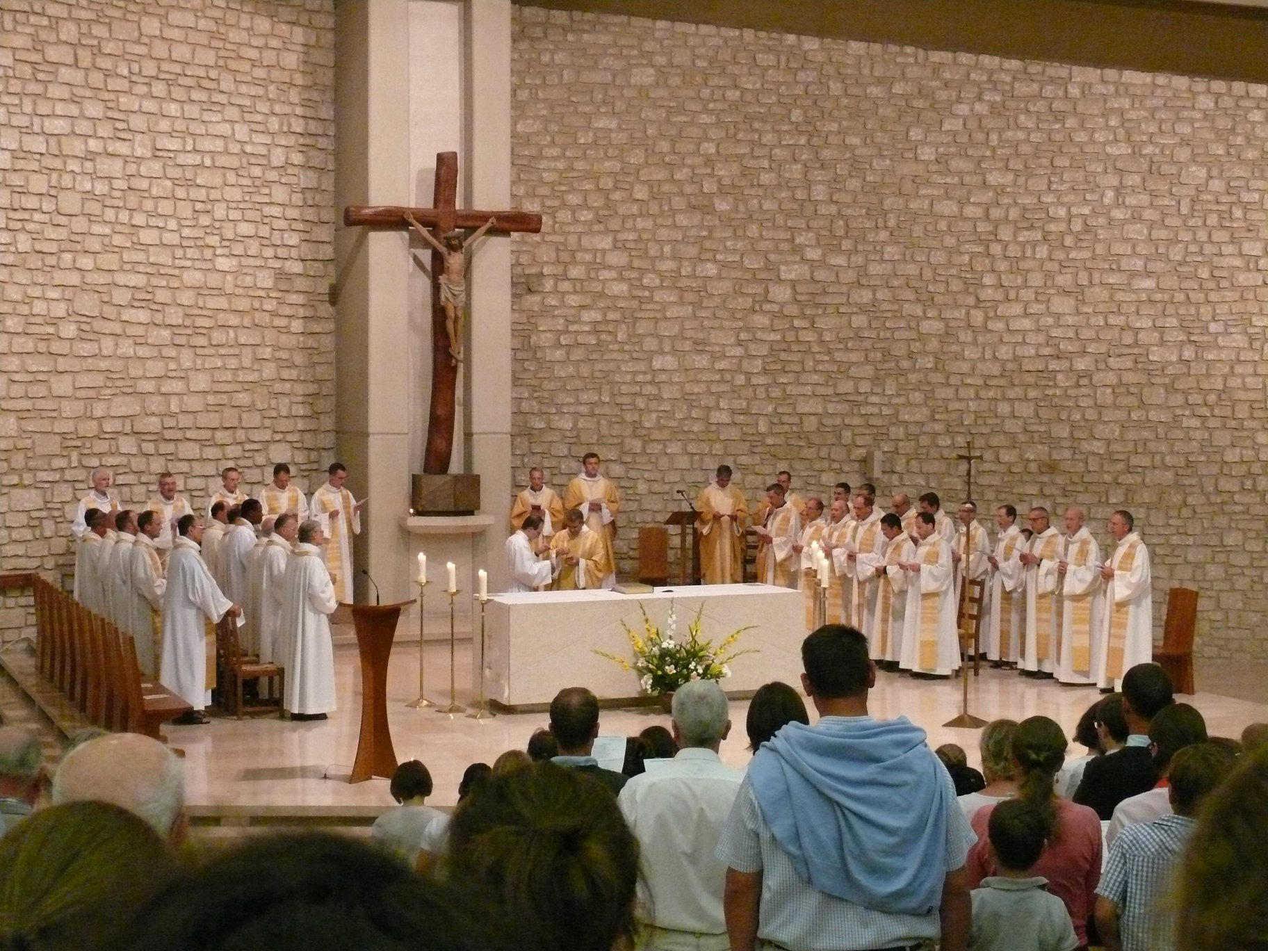 Priests of Institute Notre-Dame-de-Vie in Saint-Emerentienne's chapel in Venasque (Vaucluse, Provence-Alpes-Côte d'Azur, France).